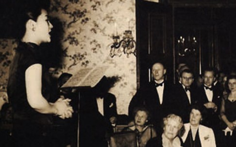 Zhou Xiaoyan gives a recital in Shanghai, 1947